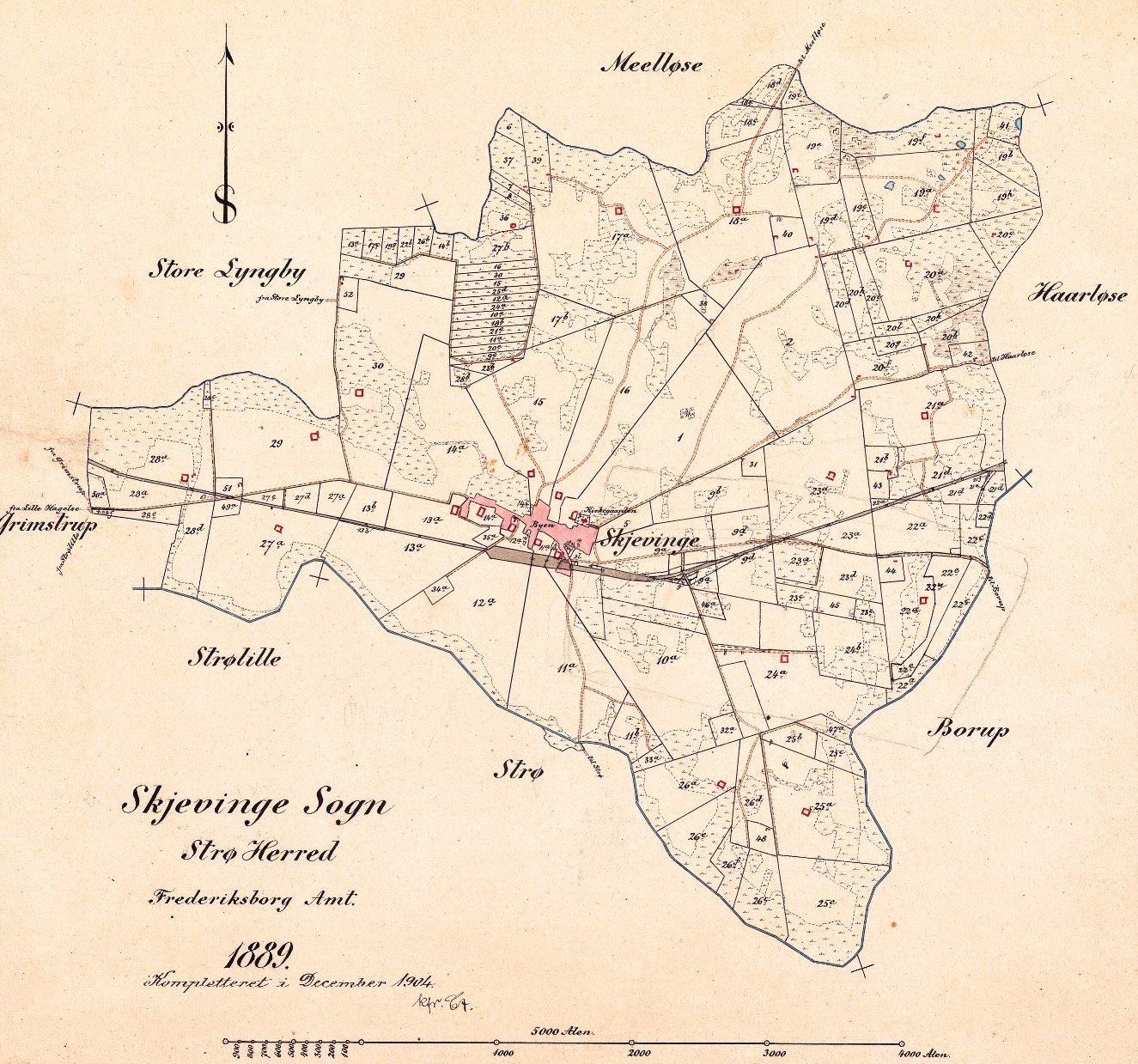 Map of Sjævinge Sogn 1889